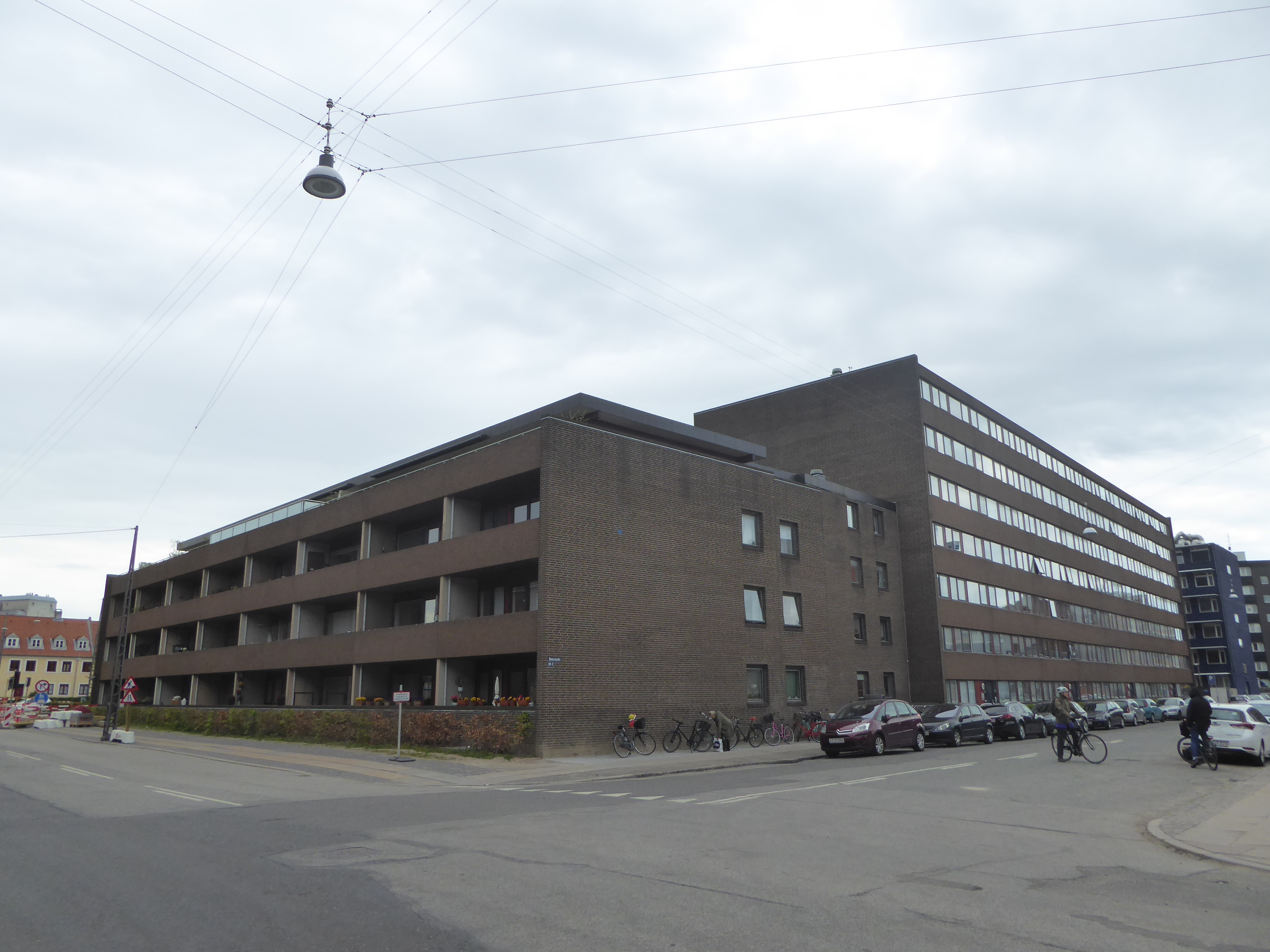 Apartment building at the corner of Aldersrogade and Rønnegade in Østerbro in Copenhagen.